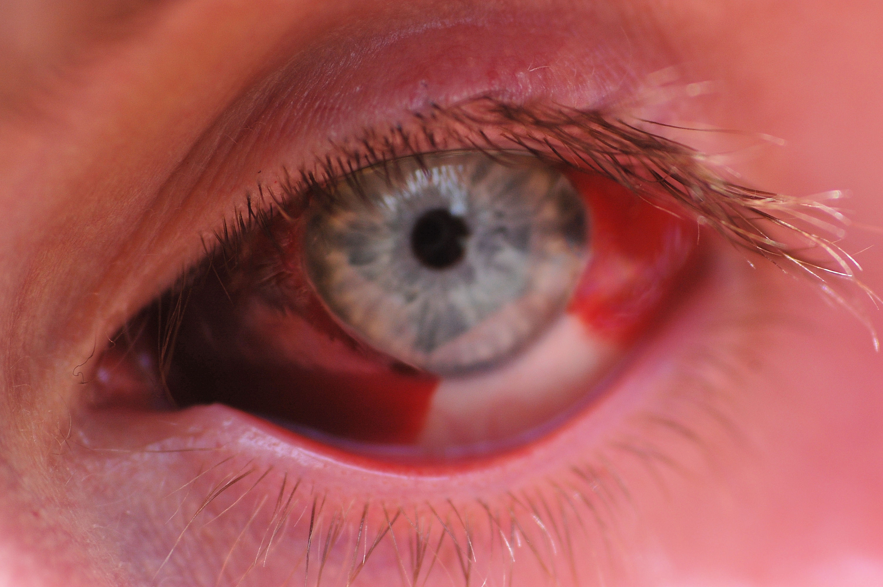 A stress induced subconjunctival hemorrhage in the left eye of a male teenager.